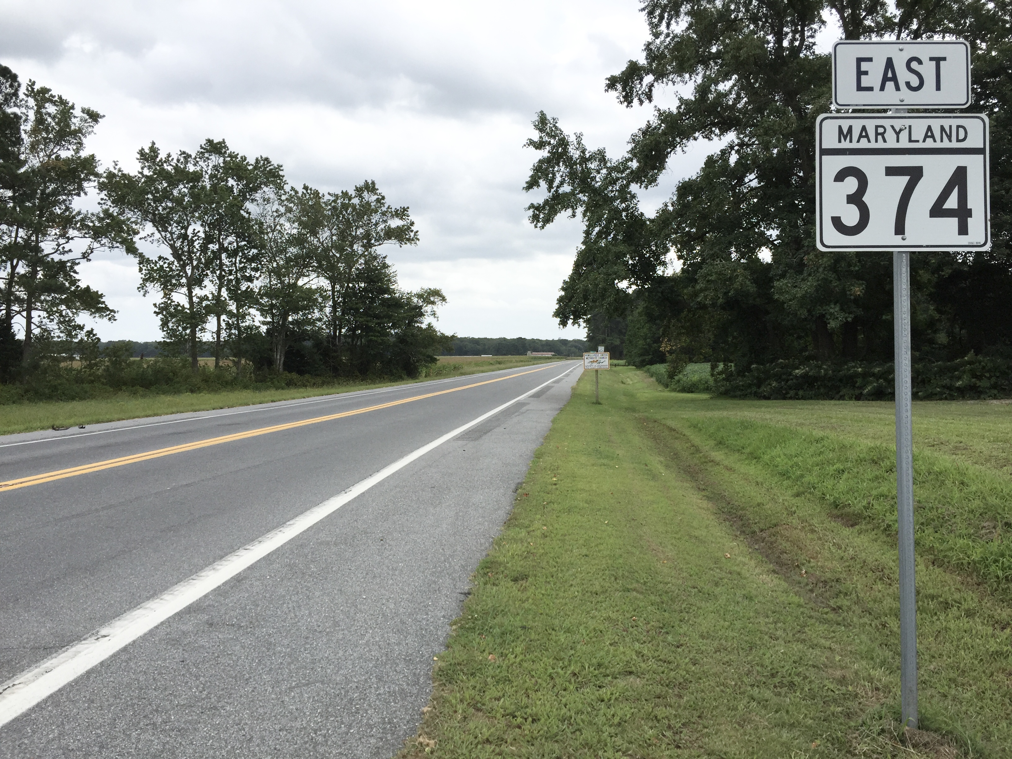 View east along Maryland State Route 374 (Burbage Crossing Road) at Maryland State Route 354 (Willards-Whiton Road) in Powellville, Wicomico County, Maryland